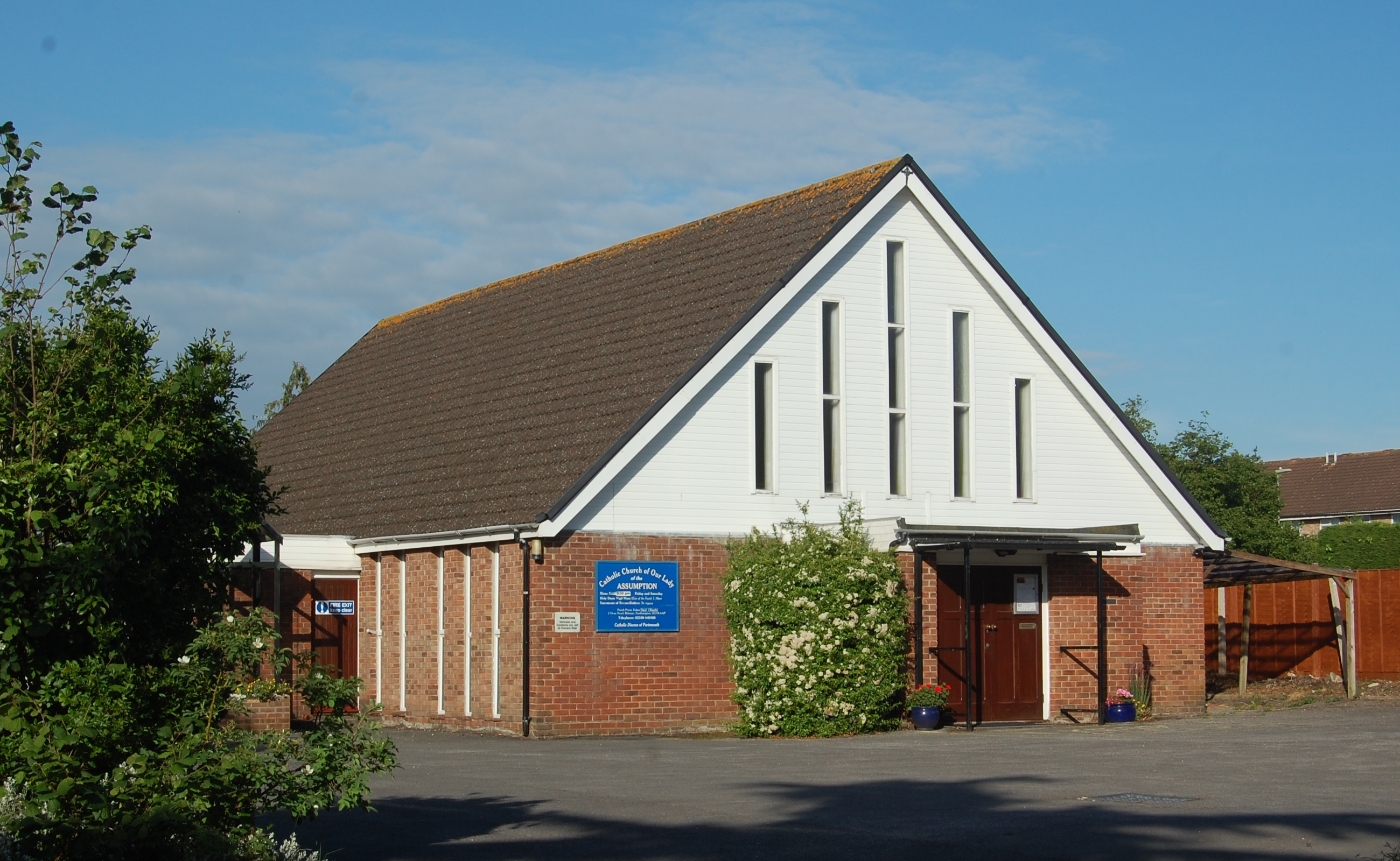 Church of Our Lady of the Assumption, Freegrounds Road, Hedge End, Borough of Eastleigh, Hampshire, England. A Roman Catholic parish church serving Hedge End and the surrounding area.